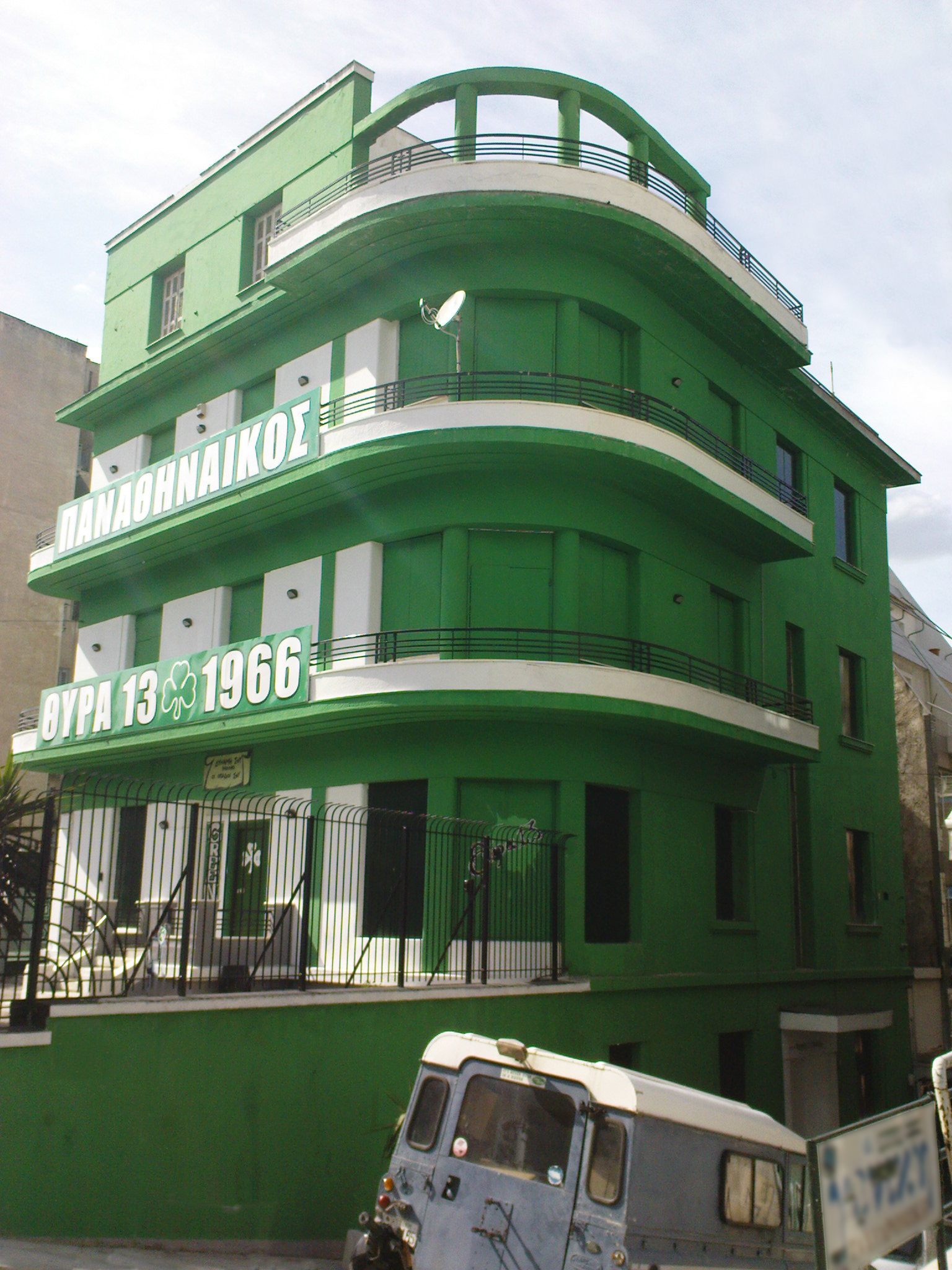 The house of Panathinaikos Fans